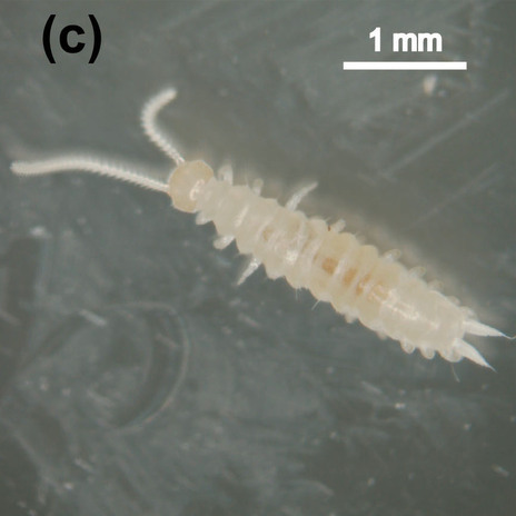 Hanseniella caldaria, a species of the class Symphyla.